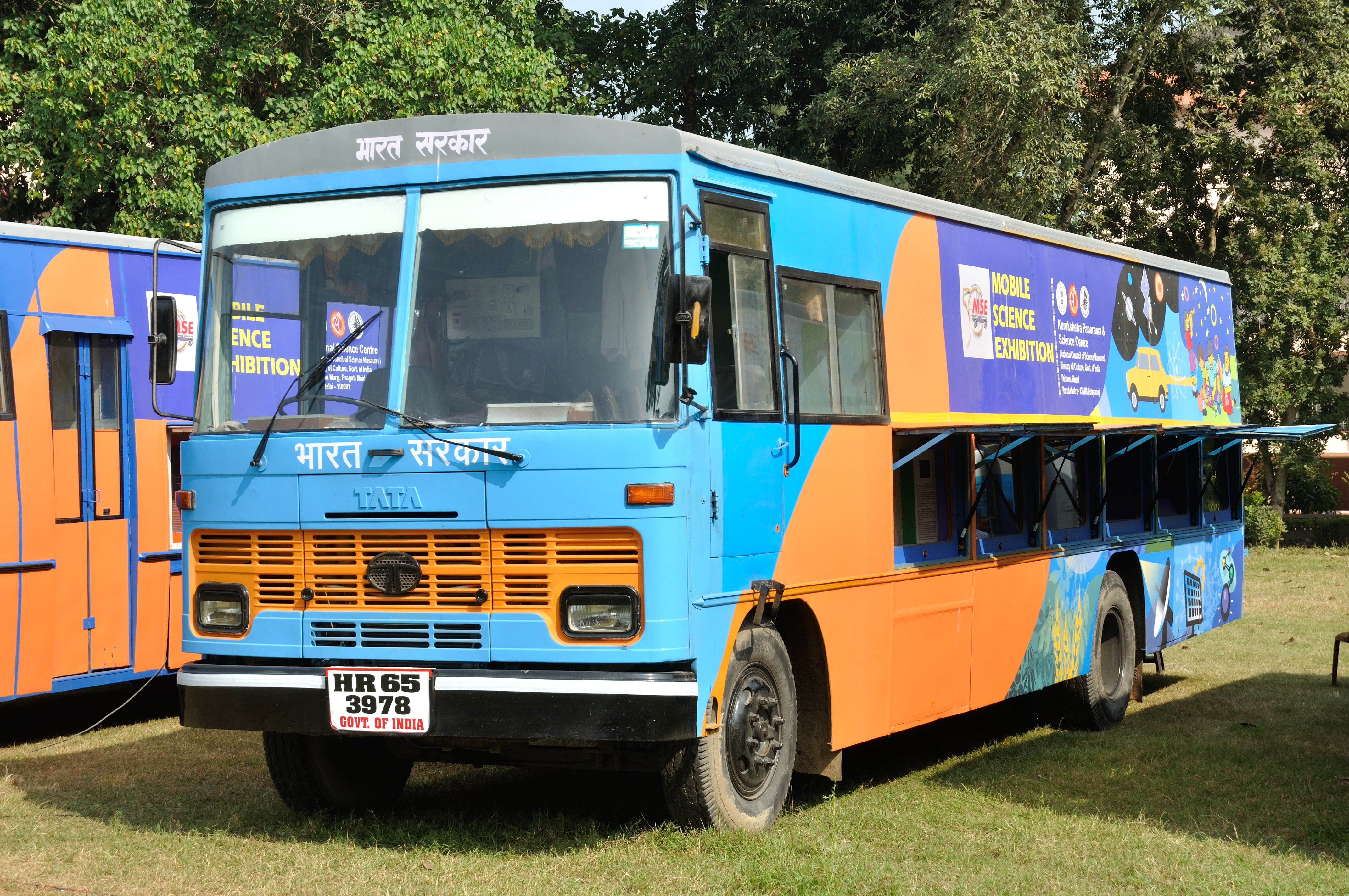 Photographed during the exhibition at the ‘Golden Jubilee Celebration’ of ‘Mobile Science Exhibition’ (MSE) by the ‘National Council of Science Museums’ (NCSM), under the Ministry of Culture, Government of India that was held at the Ramakrishna Mission Ashrama, Narendrapur, Kolkata, South 24 Parganas that was held on 20 November 2015.